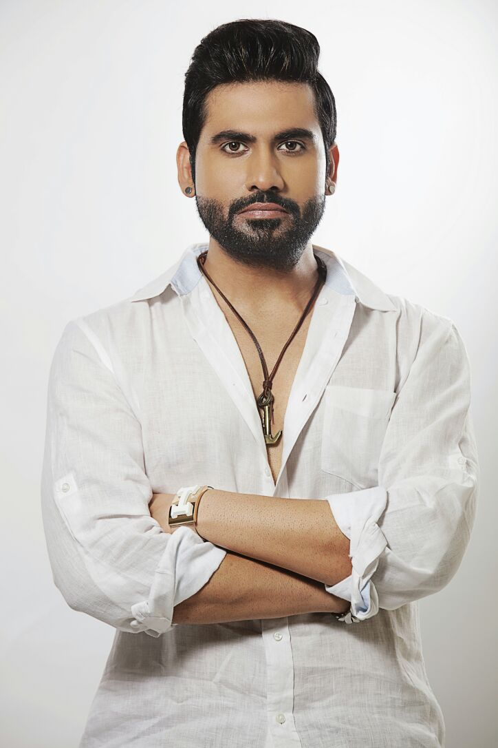 Photoshpot of harshit saxena latest